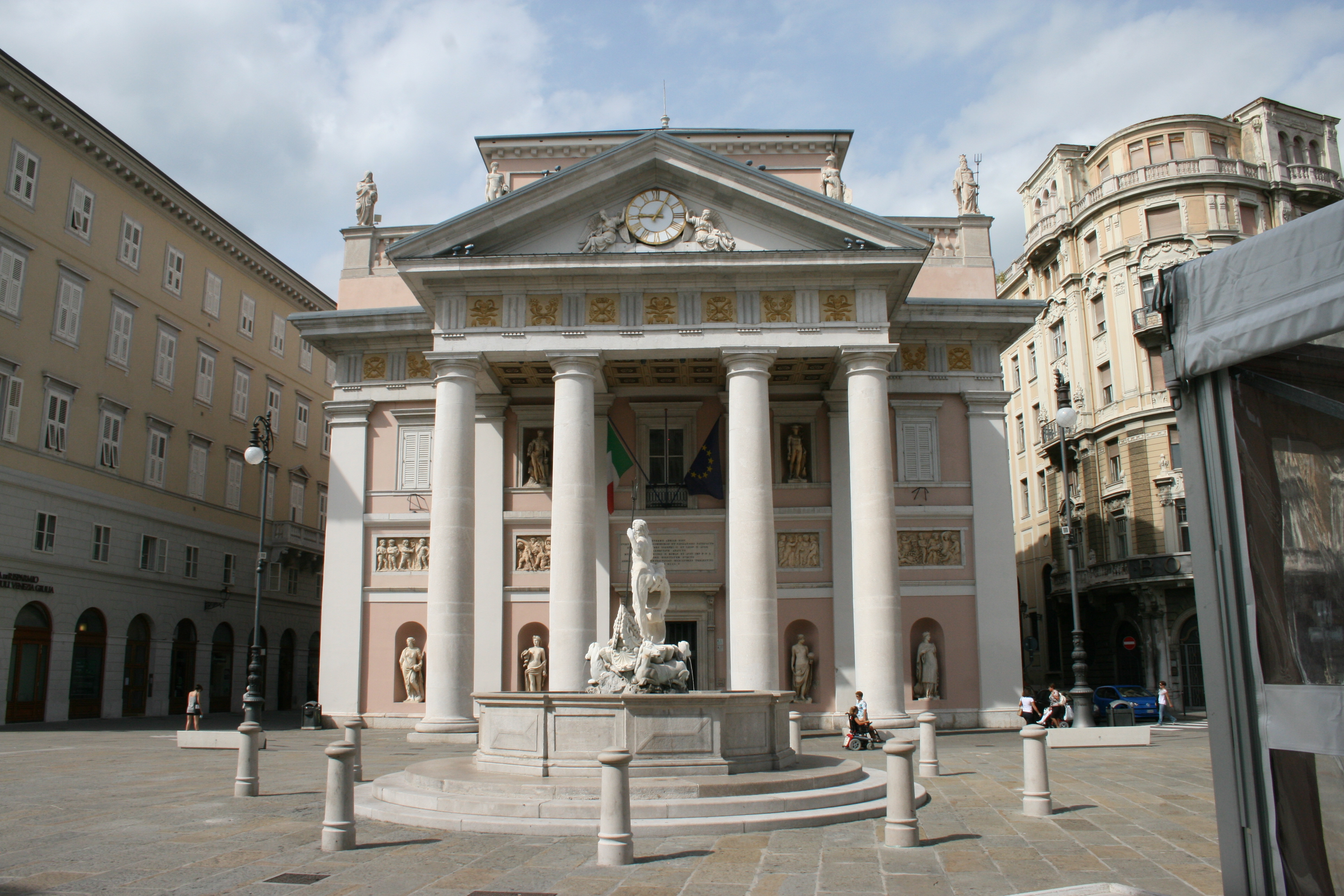 Stock market in Triest today